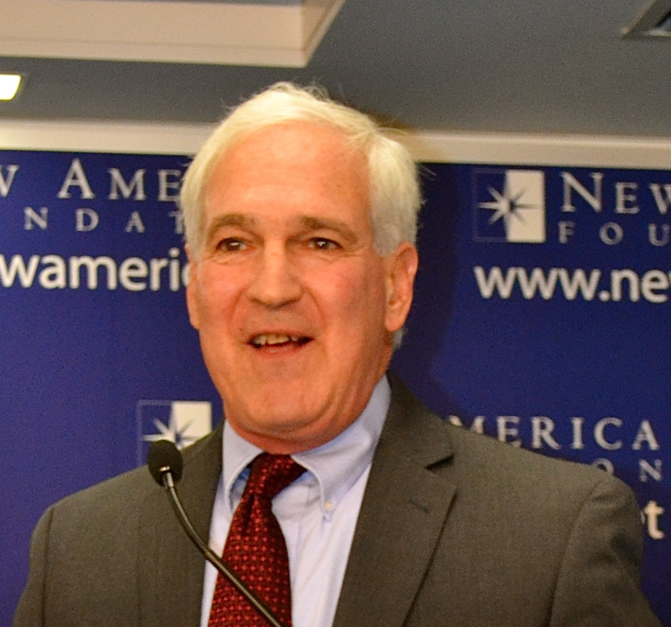 Gene Kimmelman (New America Foundation)